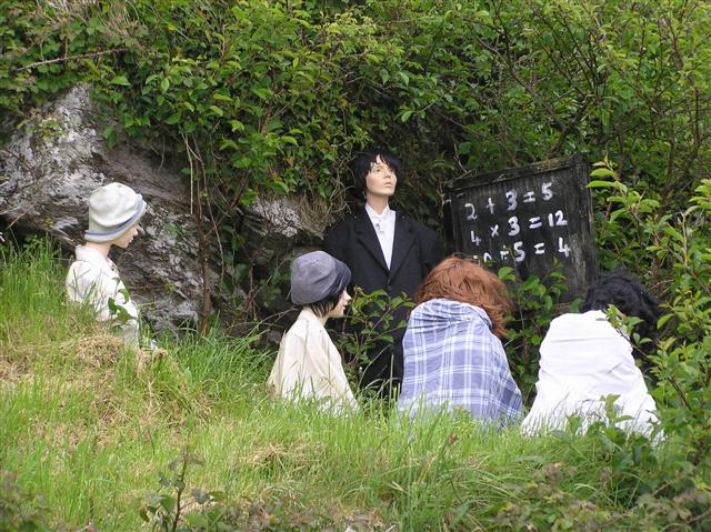 Hedge School, Doagh. Teaching the three "R"s, it is located here 1333015